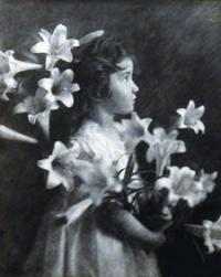 Autor fotografií: Jane Reece; Jane Reece´s photographs Picture from the installation of 34 photographs of children. Some of Reece’s earliest work – a pre-Pictoralism series of candid and studio posed cyanotypes on cotton cloth and gelatin silver photographs of African-American children in Southern Pines, North Carolina in 1903 (where she had gone for health reasons). Portraits of individual children from the Dayton area are also included as well as examples depicting children posed in costumes or scenes reminiscent of Old Master paintings. Reece’s portraits are not mere photo-documentation keepsakes; they engage the viewer mentally and emotionally - whispering possible stories and hinting at the complex minds of the sitters.